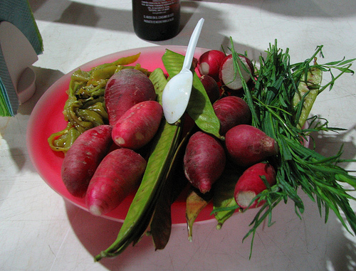 A Mexican botana or snack, comprised of hauxya (guaje) pods, Radishes and Nopales. Location: Oaxaca de Juárez, Oaxaca, Mexico.